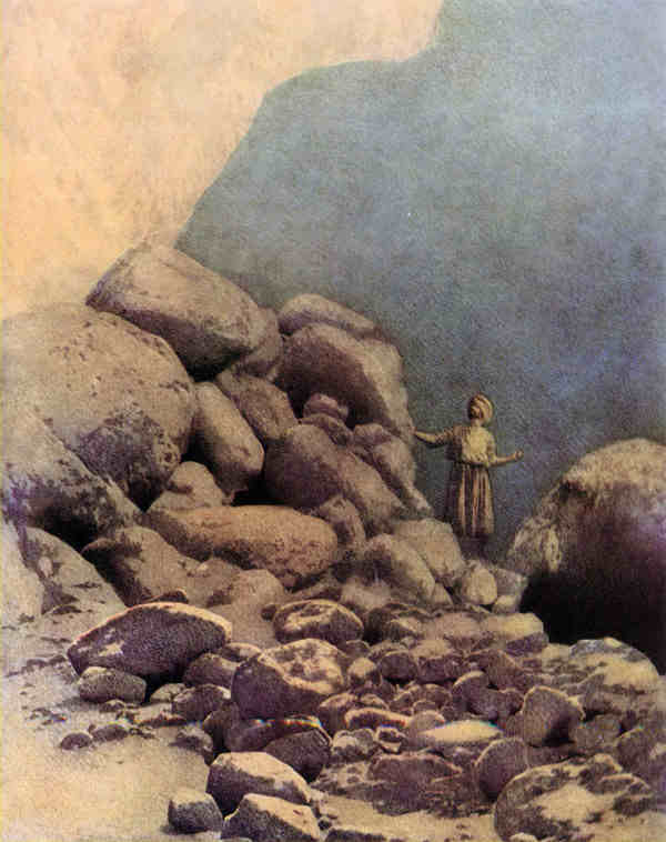 The Valley of Diamonds by Maxfield Parrish. Book illustration from The Arabian Nights (Sindbad 2nd voyage), published 1907.